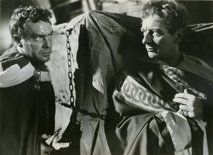 Promotional image for the film Julius Caesar (1953), featuring Edmond O'Brien (left) and John Gielgud (right) Such images were taken by a studio photographer, and then disseminated to the media and the public for the purpose of promoting their films.